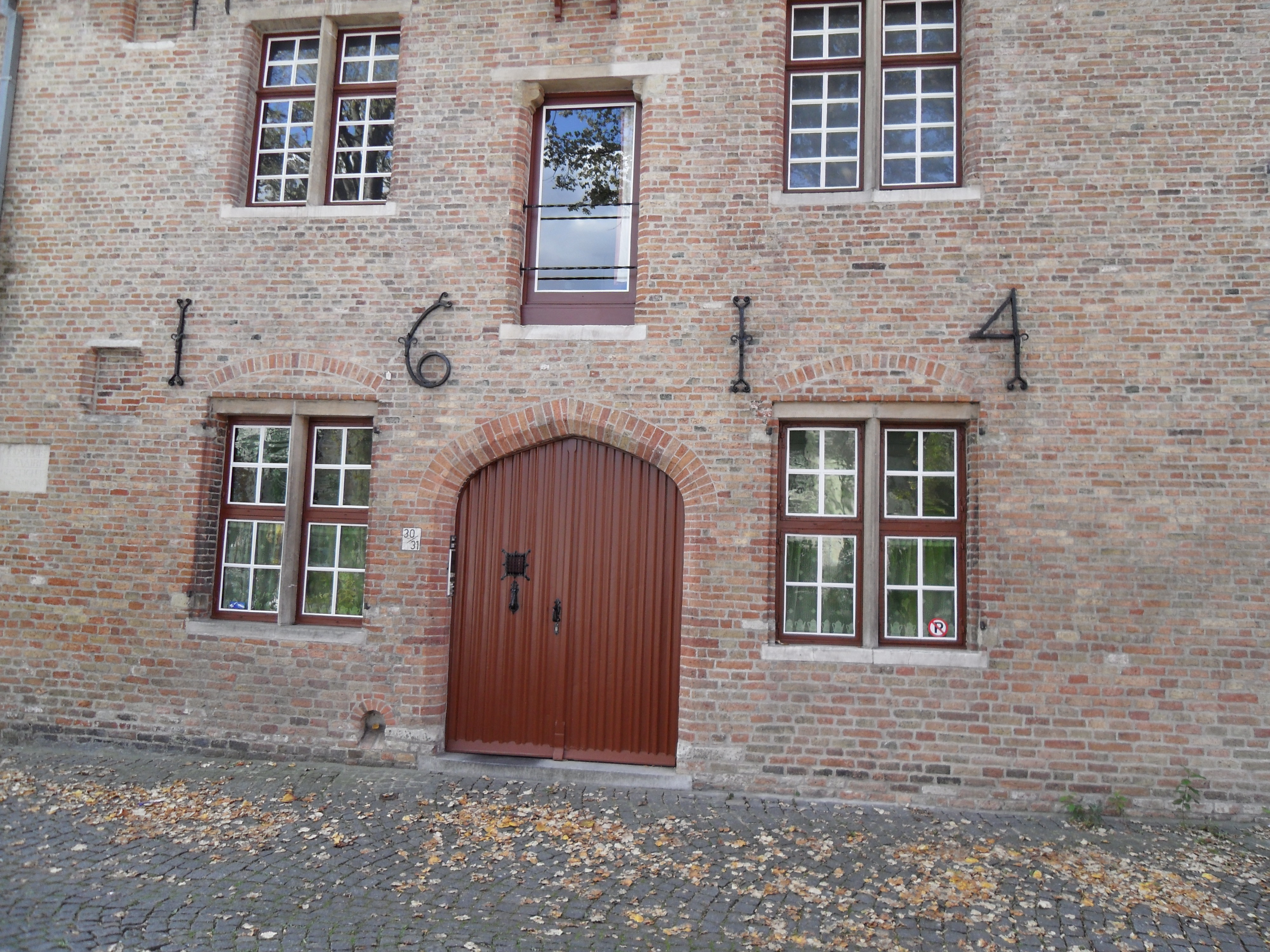 Walplein